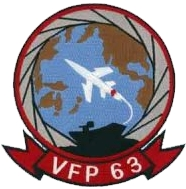 Insignia of the U.S. Navy Photographic Reconnaissance Squadron 63 (VFP-63).